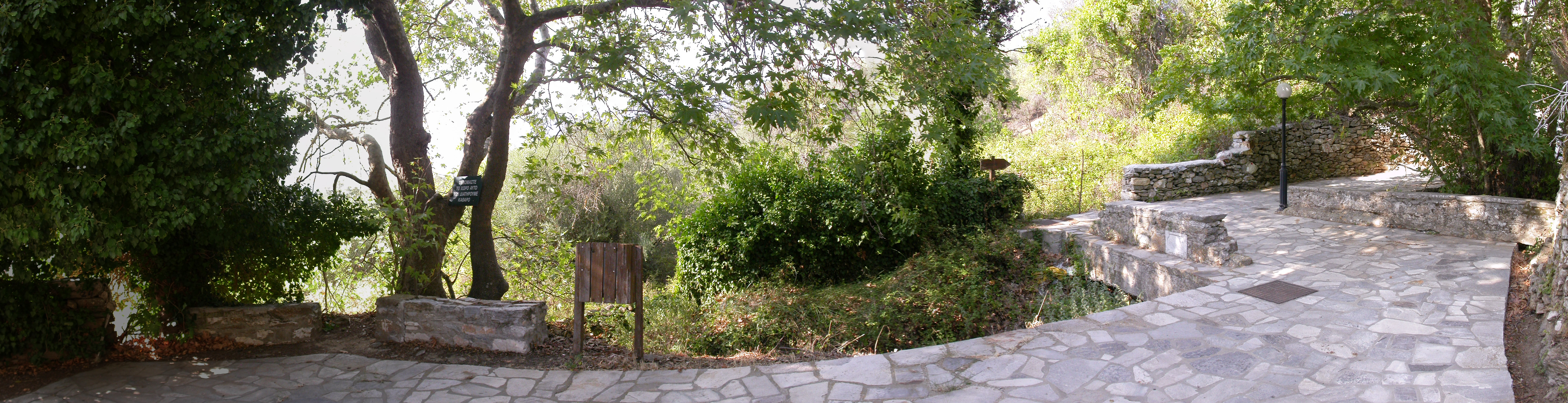 The area with the small bridge next to Vasalakis square in Kaloxilos, Naxos, Cyclades, Greece